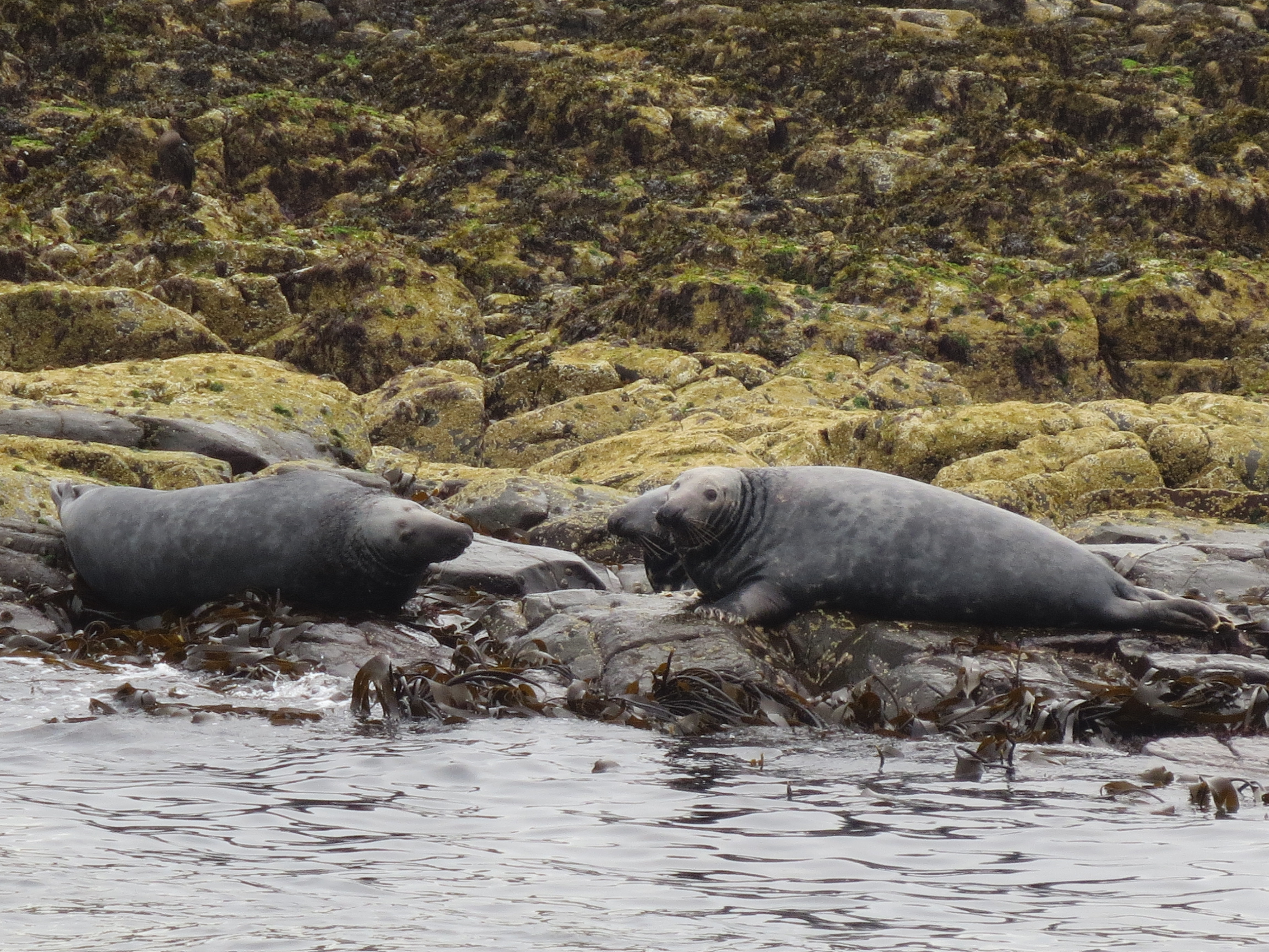 Grey Seals om Farne Islands